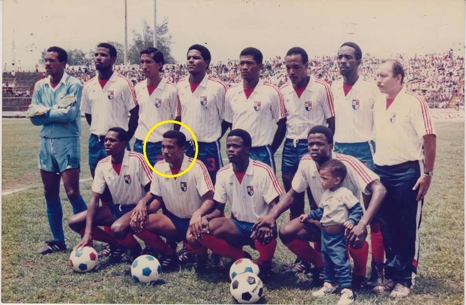 oberto en la sele